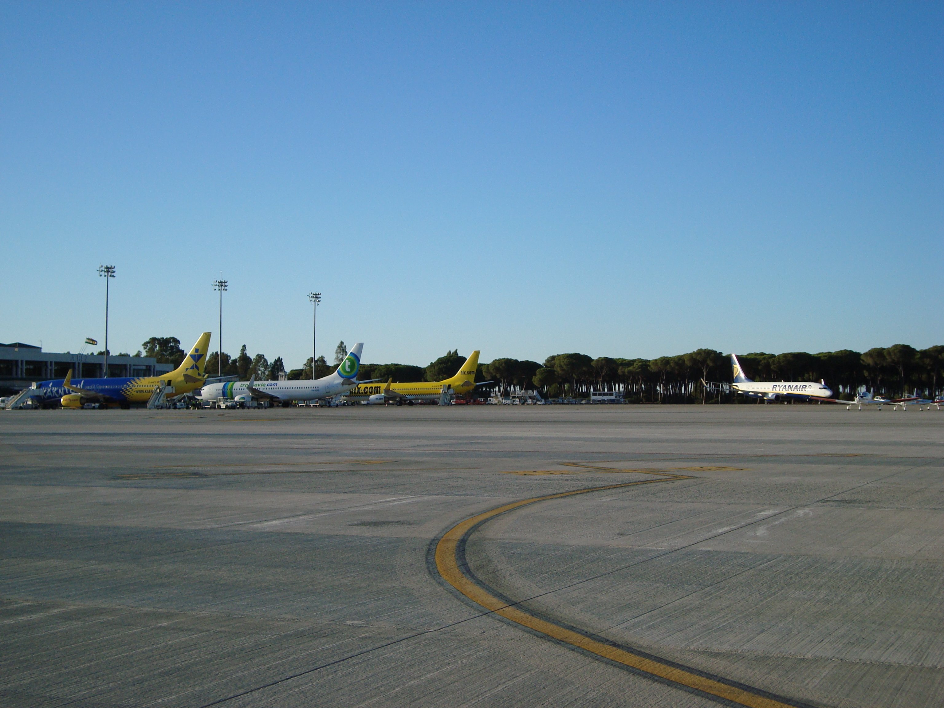 Apron at Jerez Airport.